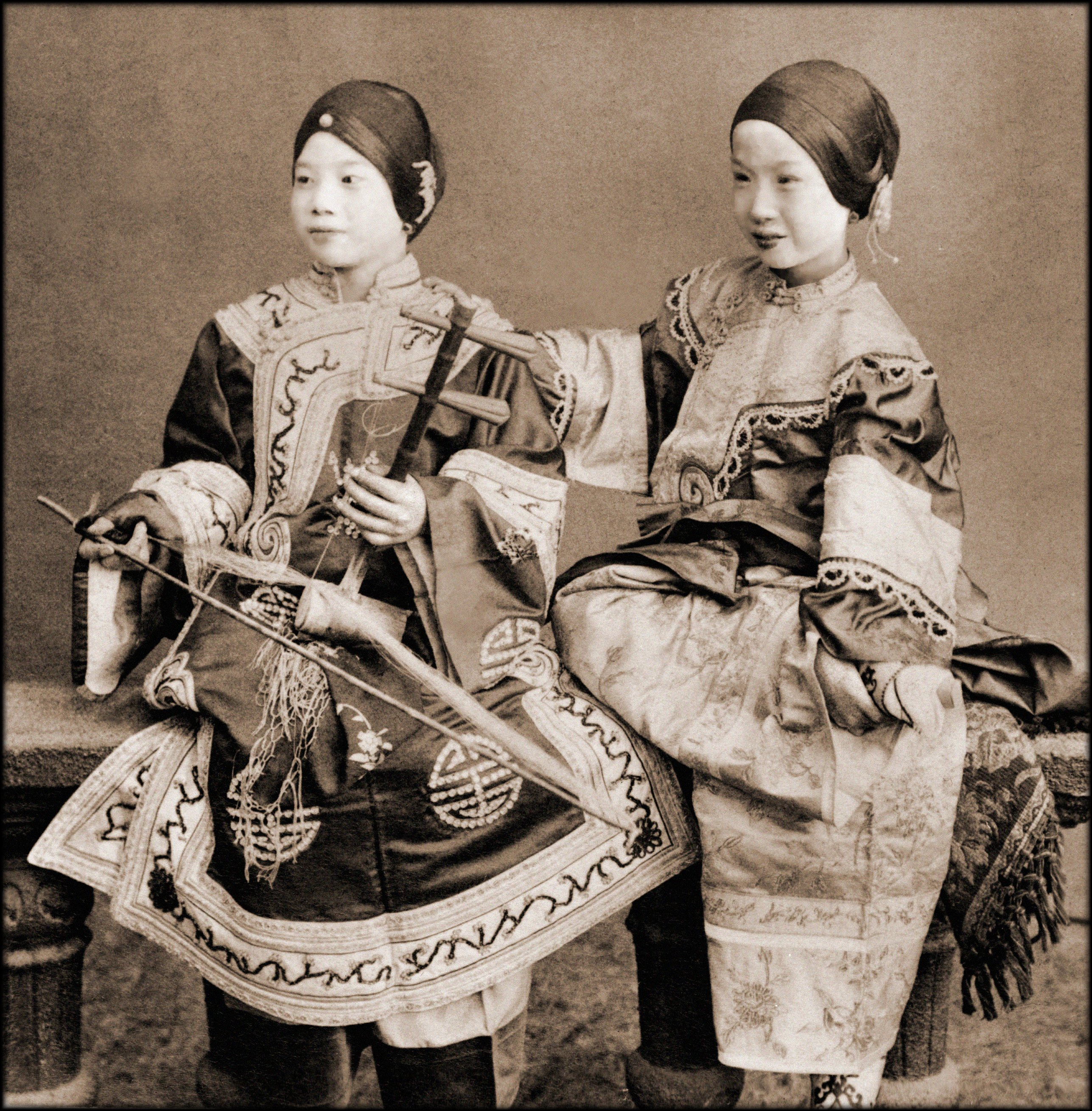 Entitled: Singing Girls, Hong Kong, China [c1901] BW. Kilburn [RESTORED] I repaired a few spots and scratches, added contrast, adjusted tone with a final sepia. I also added a shadow to better define the outline of the bound foot of the girl on the right. I found this beautiful image in the US Library of Congress, where it resides under Reproduction Number LC-USZ62-118904. Benjamin West Kilburn was an American photographer and stereoscopic view publisher primarily of US and Canadian landscape. However, his company also produced a significant amount of far international images, including the far east and China. Many of the images credited to his company were actually taken by "work for hire" free lance photographers. This has always been one of my favorite despite the posed nature of it. This picture was one of a set of several artificially propped shots that purportedly showed a slice of Chinese life during the turn of the 20th Century.